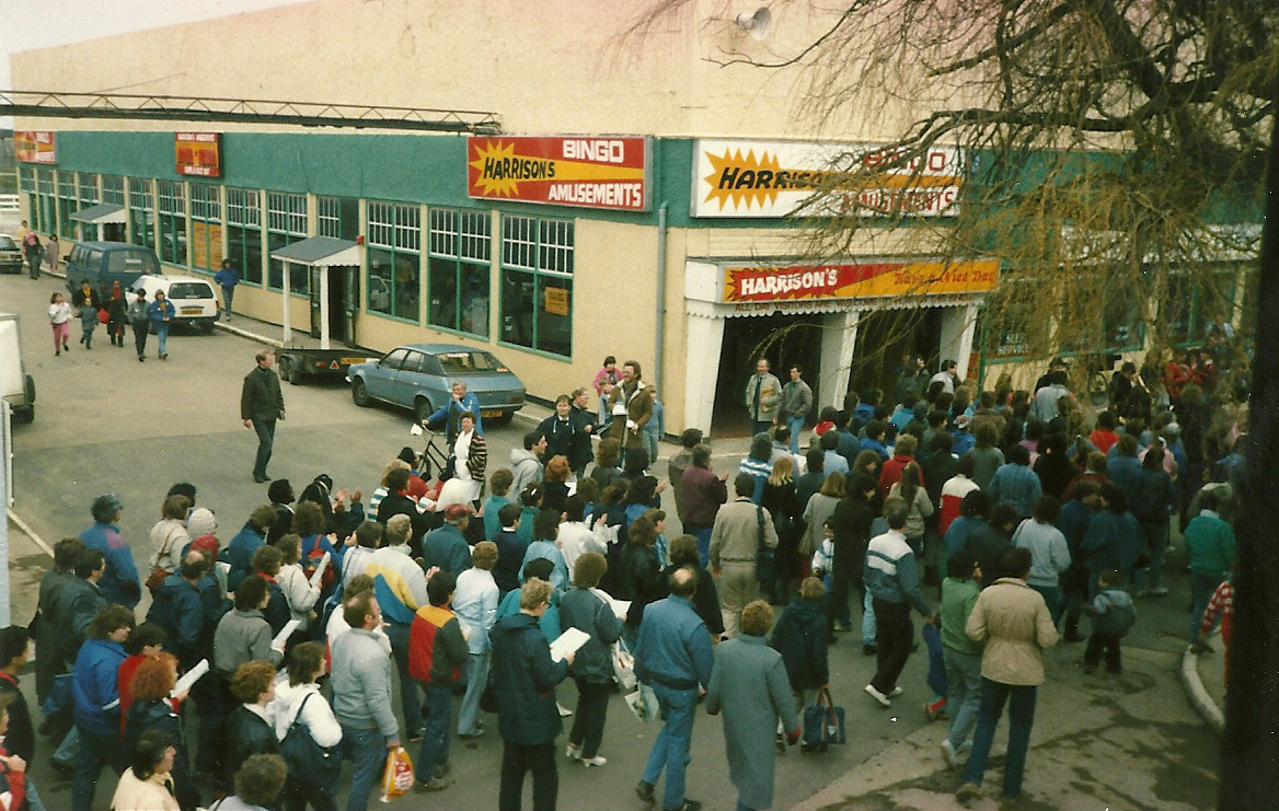 A Parade through Spring Harvest at Butlins Skegness in the Early 90's